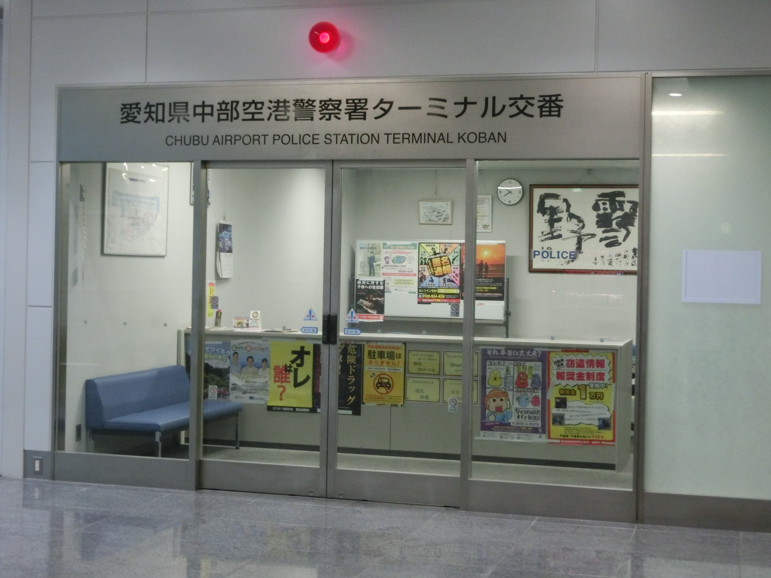 Chubu Airport Police Station Terminal Koban